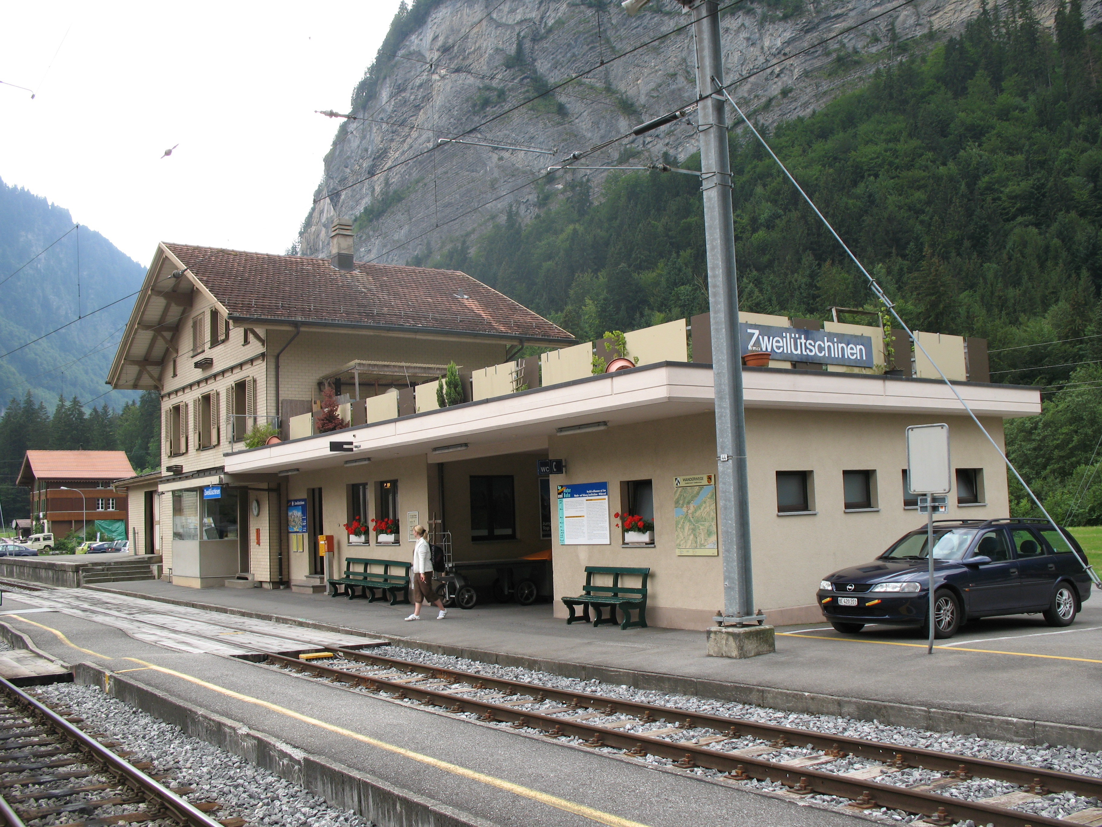 Zweilütschinen